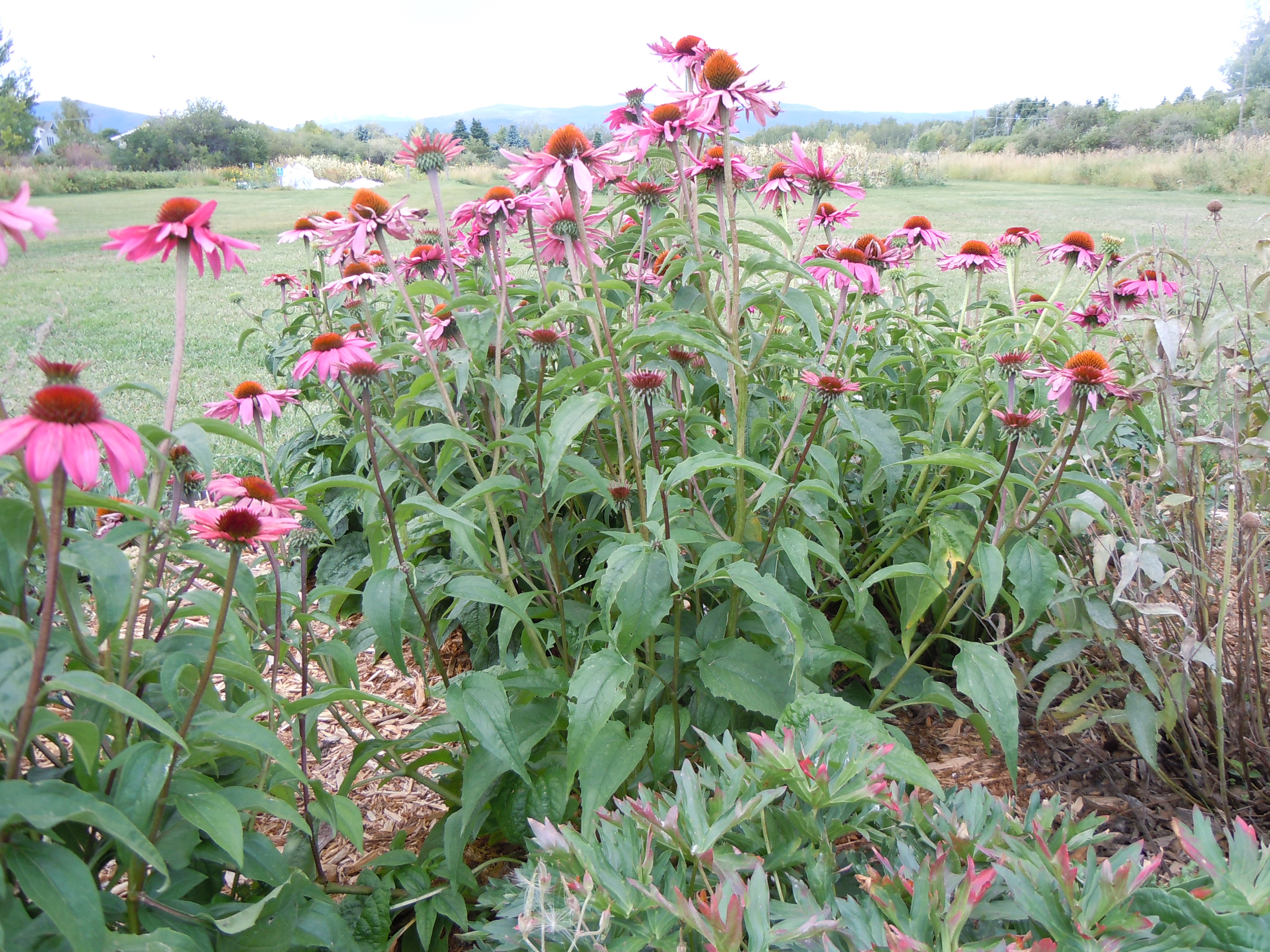 Easter purple coneflower is more commonly cultivated in Montana than is the native relative, Echinacea angustifolia.